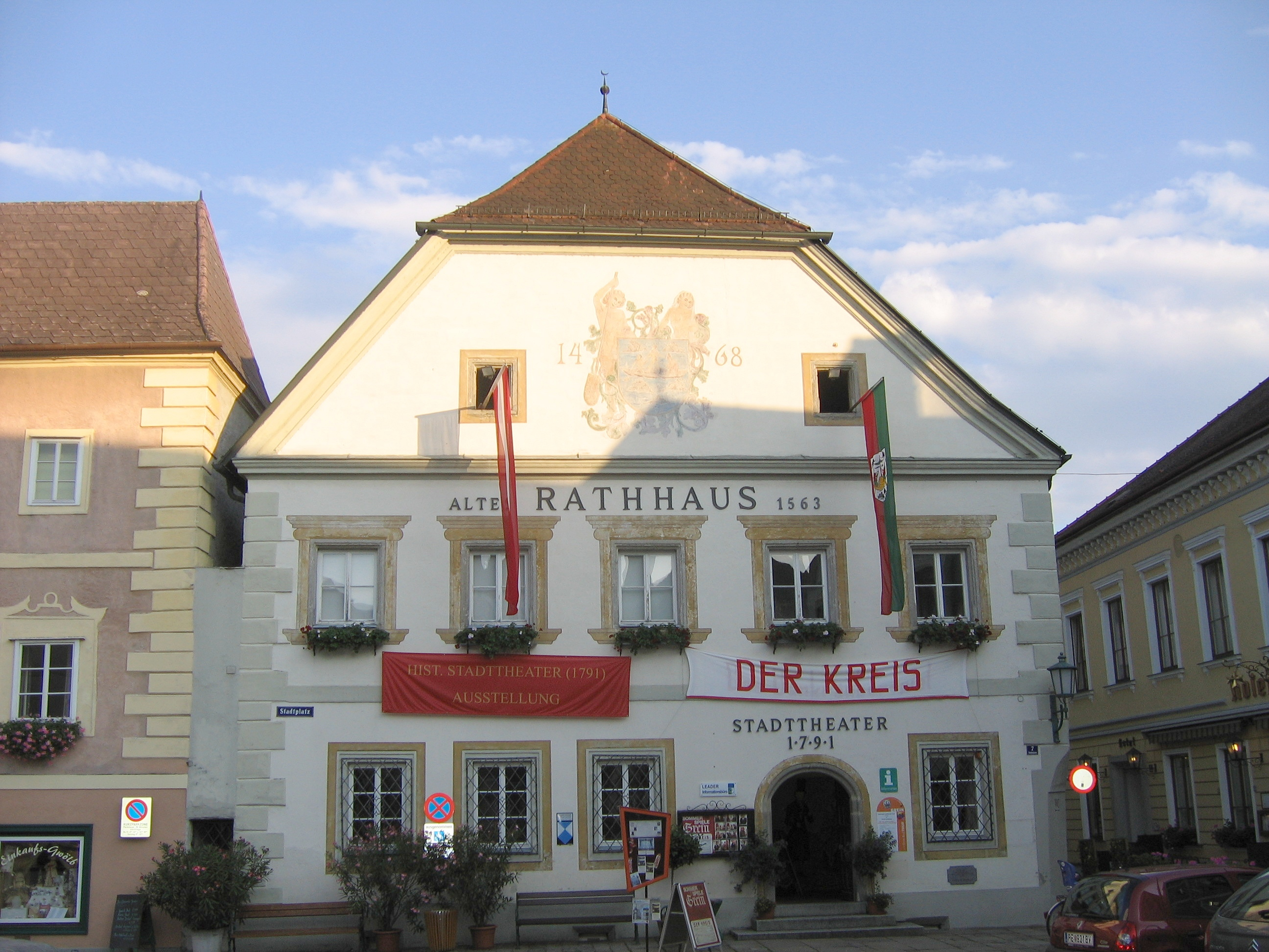 Grein, Austria, town hall of 1563